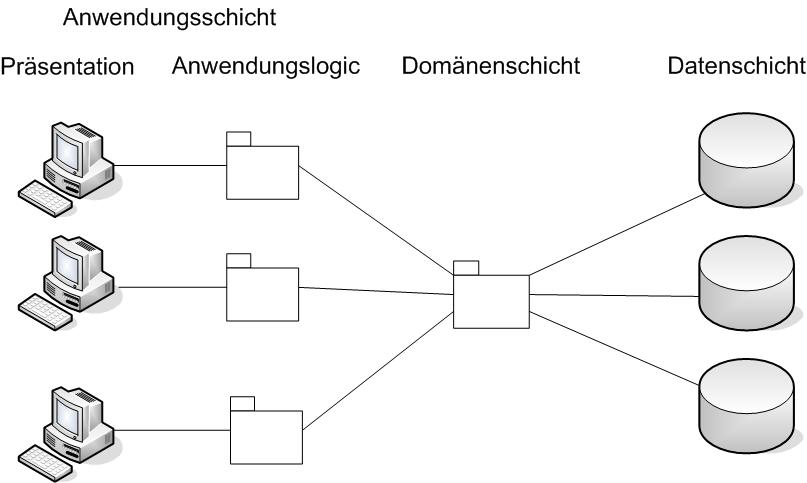 Example of a 3-tier architecture with presentation layer